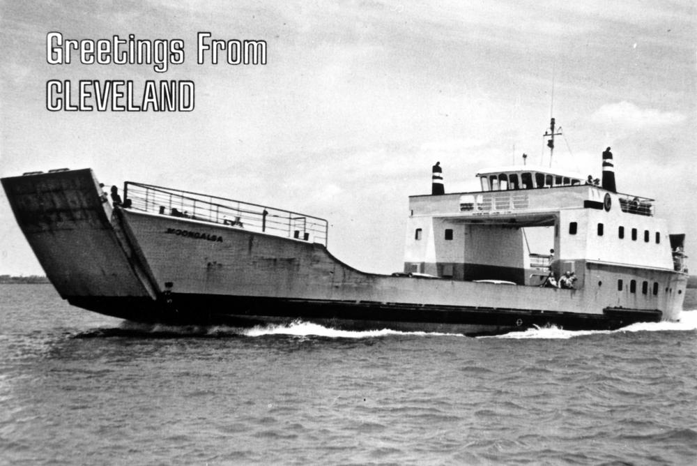 Moongalba (ship) Vehicular ferry operating between Stradbroke Island and the mainland, photographed during one of its many crossings. Caption on photograph: Greetings from Cleveland.